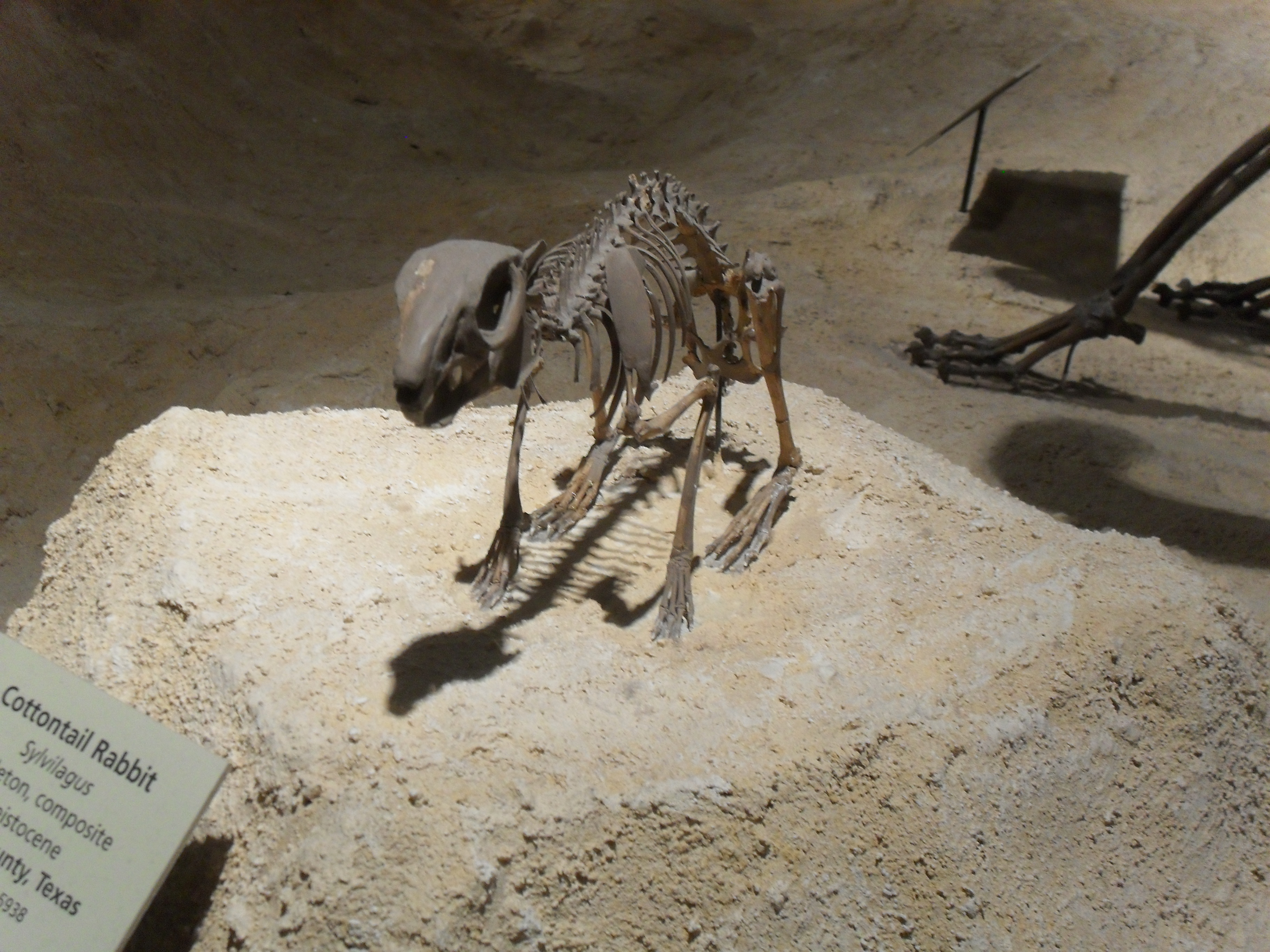 Austin Zoo